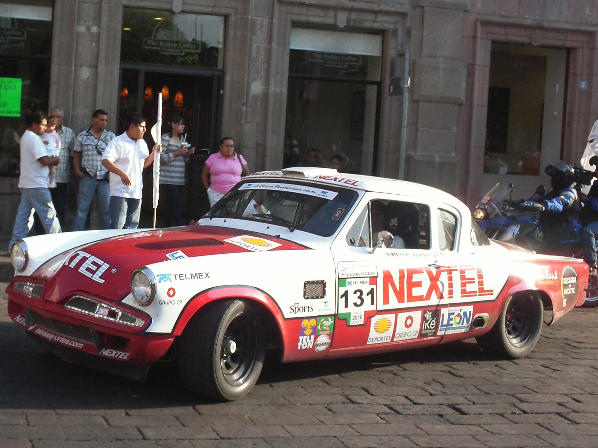 Picture of Michel Jourdain in the Carrera Panamericana 2010